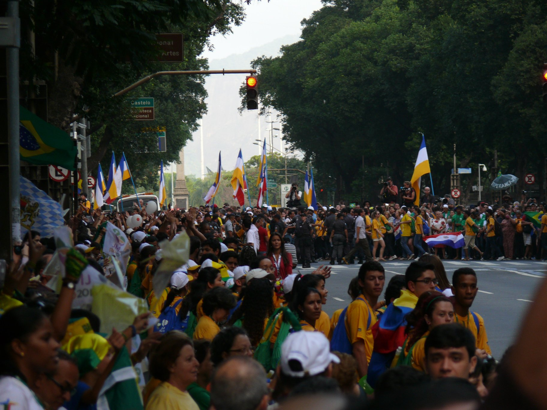 The 2013 World Youth Day in Rio de Janeiro (Brésil).